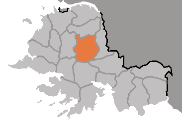 Map of Sinchon, Hwanghae-namdo, DPRK, 2006